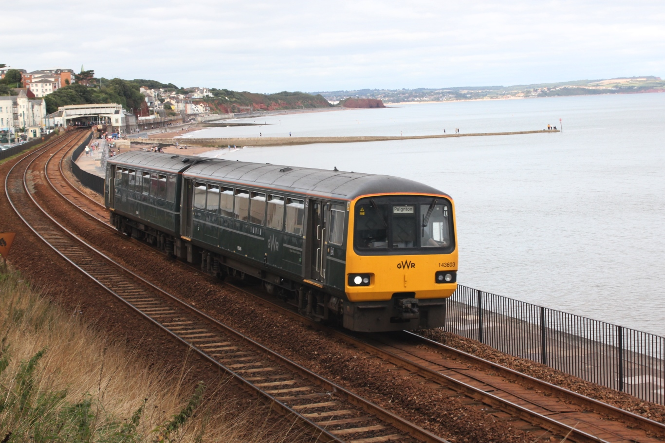 Great Western Railway 'Pacer' 143603 plods along the sea wall past the Boat Cove at Dawlish. It is on its way from Exmouth (which is visible in the distance on the other side of the estuary) to Paignton.